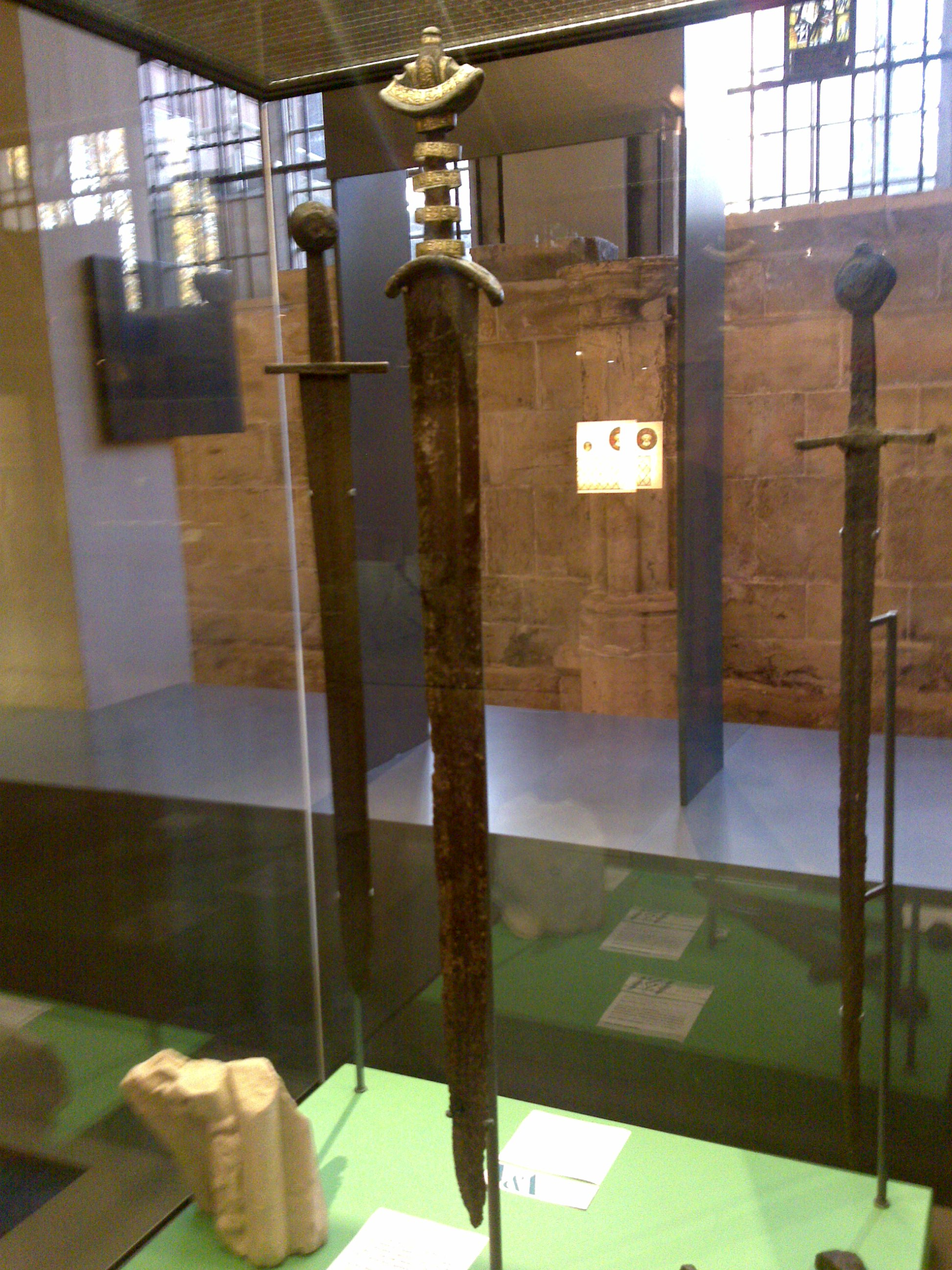 The Gilling Sword at the Yorkshire Museum, York, UK. More information.